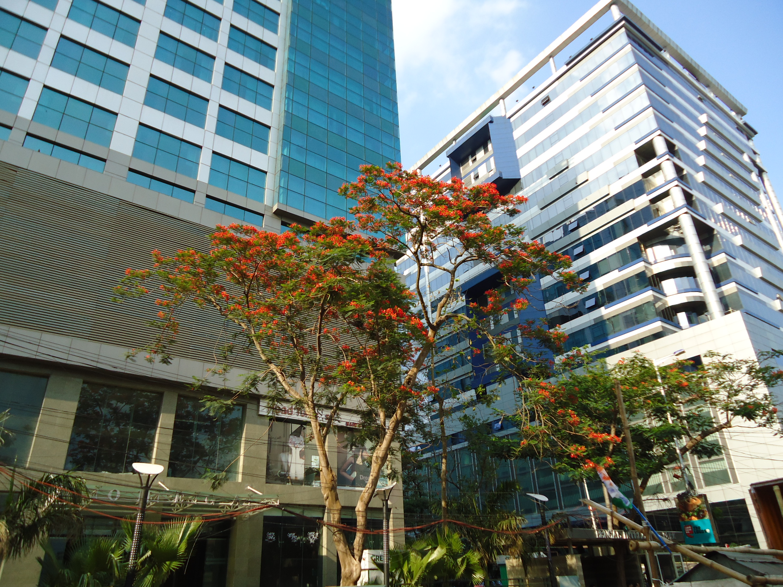 Sec V Office towers